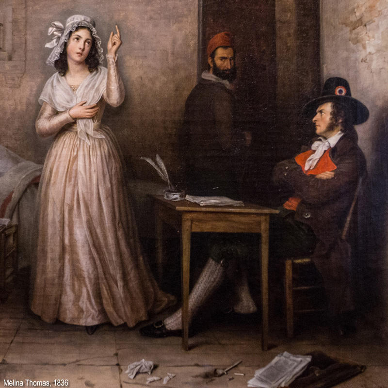 Painting of Charlotte Corday by Mélina Thomas, 1836. Musée de la Révolution à Vizille (Isère)